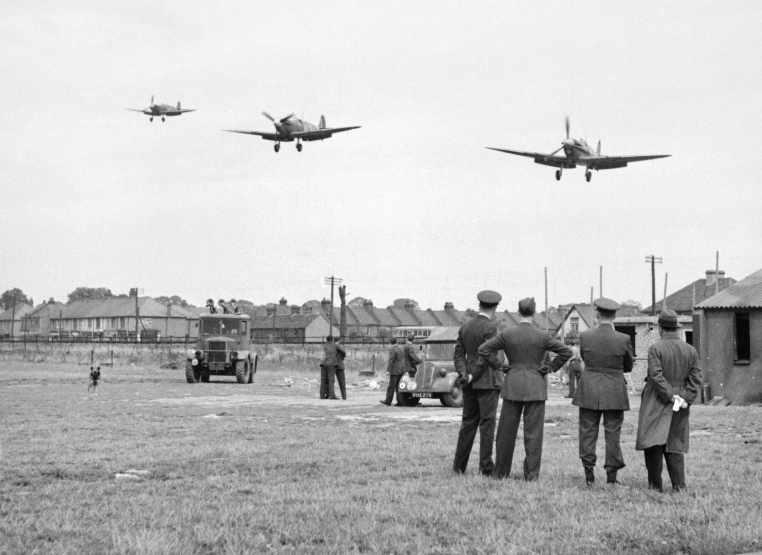 Personnel of No.121 (Eagle) Squadron look on as three Spitfire Vbs come in to land at RAF Rochford in Essex, after a fighter sweep over northern France during August 1942. Personnel of No 121 (Eagle) Squadron look on as three Spitfire Vbs come in to land after a fighter sweep over northern France. Some of the accommodation used by the Squadron is visible in the background, as are several civilian houses. Also visible are two Royal Air Force vehicles.